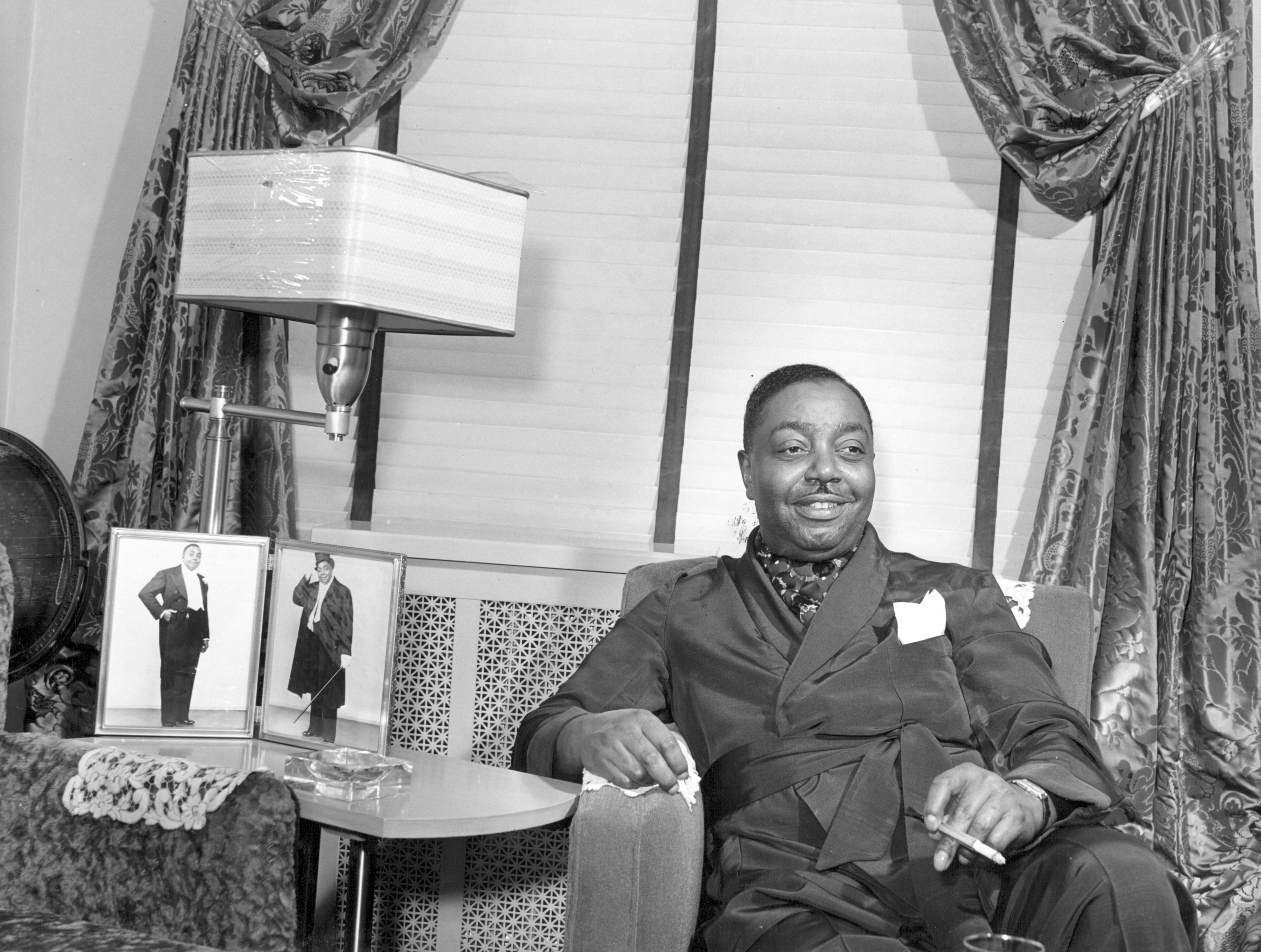 "Prosperous Chicagoan spends evening at home." Singer Big Joe Turner relaxes at home, Chicago, Illinois, 1941. Photo shows Turner seated in chair, with lit cigarette in cigarette holder in his left hand. To left is lamp, and table with ashtray and two framed photographs. The factual accuracy of this description or the file name is disputed.Reason: Please see the relevant discussion on the talk page.